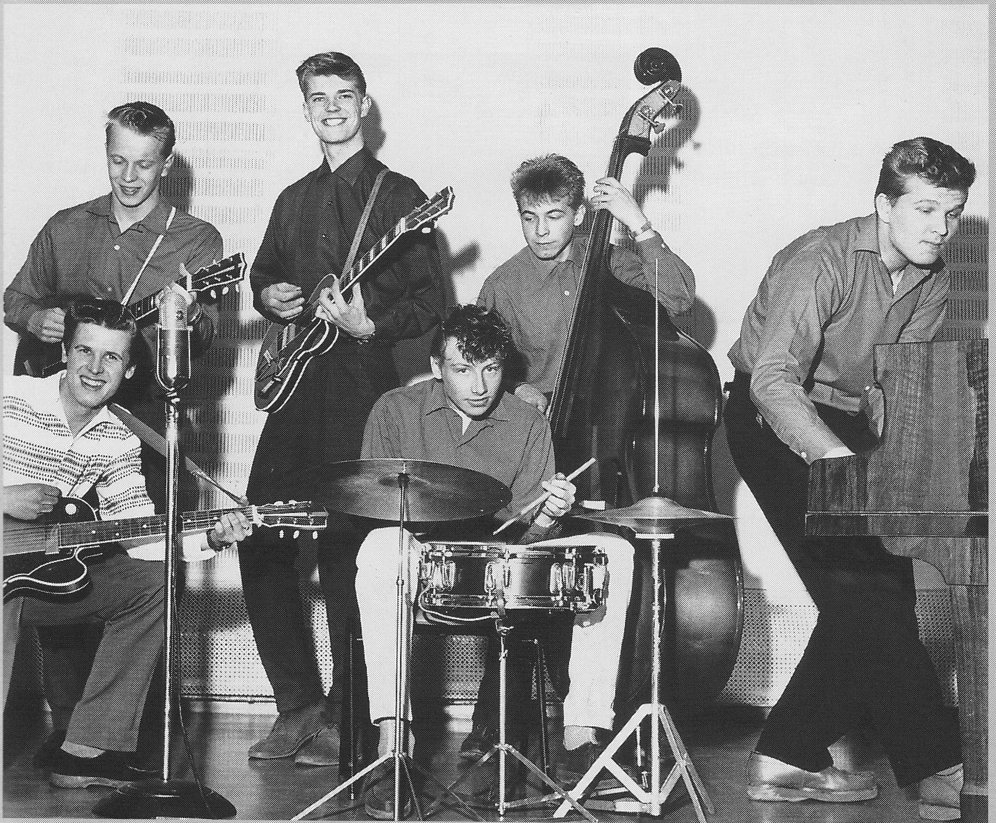 Jorma Kalenius and his group